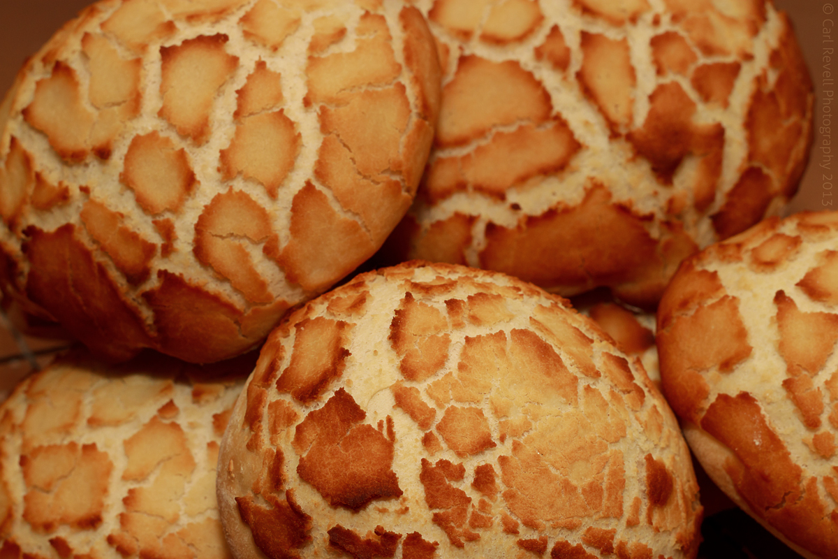 Tried my hand at baking some tiger/giraffe bread rolls. Very happy with the results. Tomorrow's lunch ham, tomato and lettuce roll is going to be a bit spesh :)